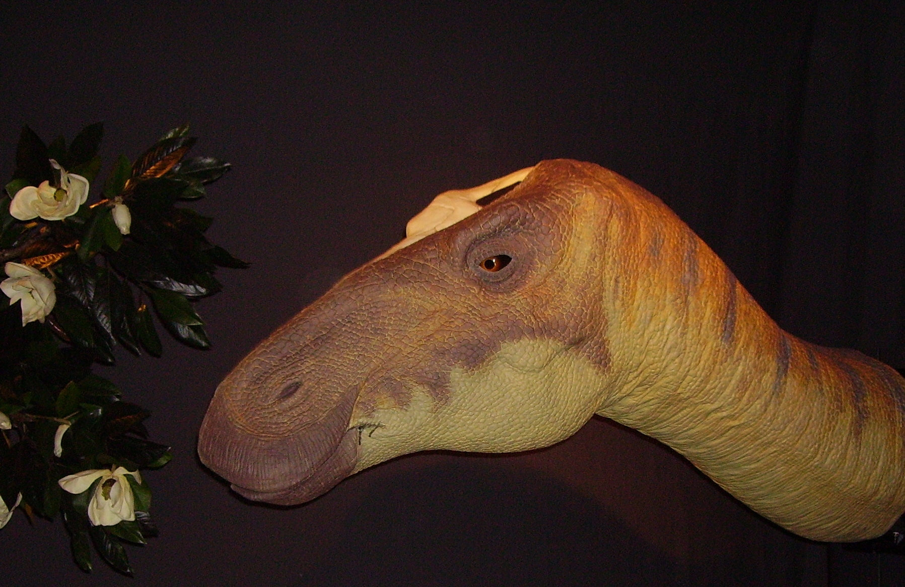 Photographer: User:Ballista